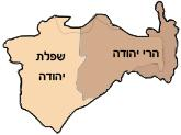 Map of Jerusalem district